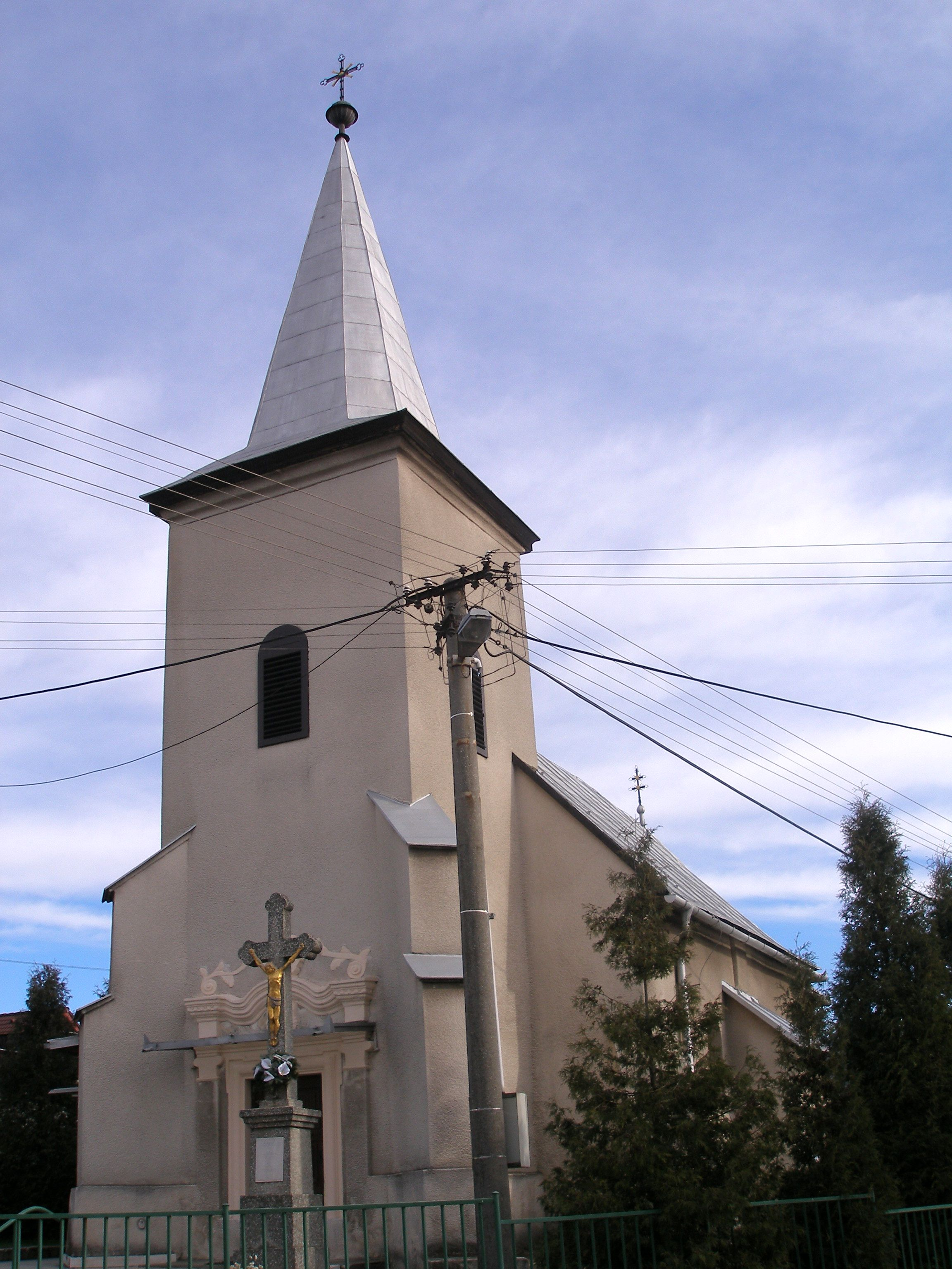 Obec Teriakovce v okrese Prešov This medium shows the protected monument with the number 707-10759/0 (other) in the Slovak Republic.